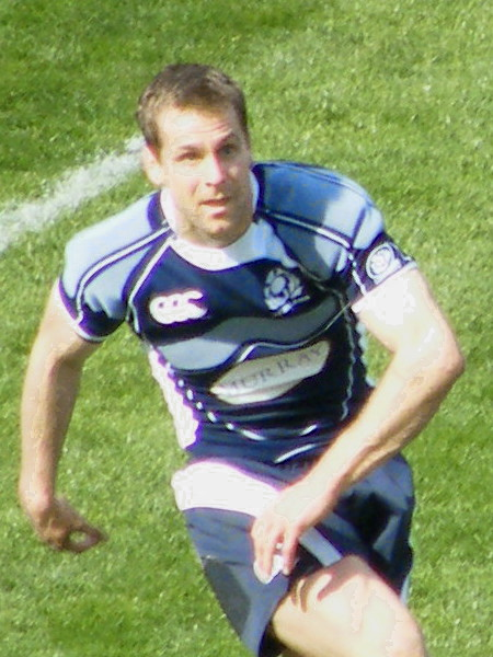 Scottish rugby union player Chris Paterson kicking a penalty vs Italy in Rome at the 2008 Six Nations Championship